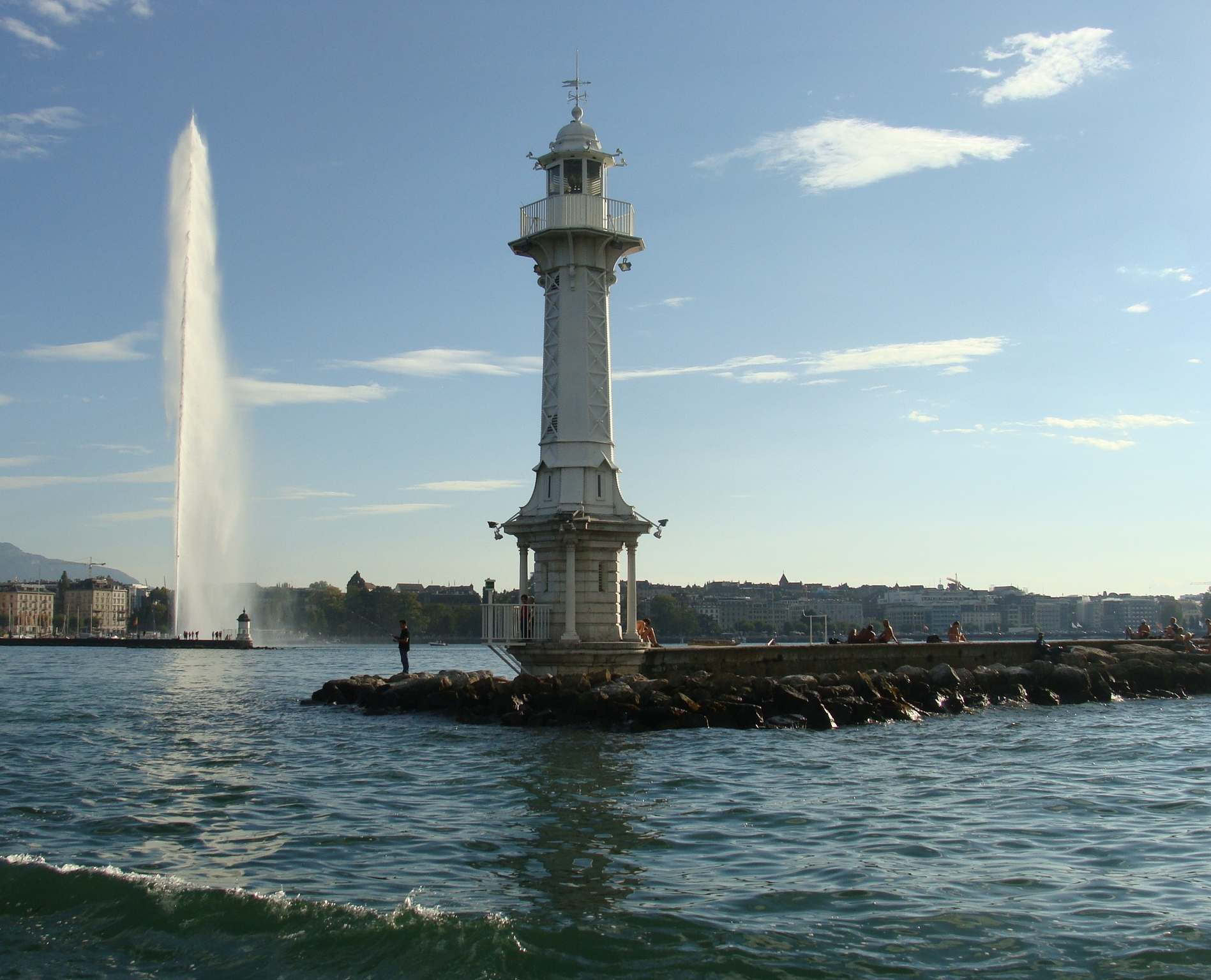 Lake Geneve lighthouse